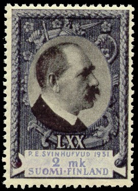 Postage stamp depicting the president of Finland P. E. Svinhufvud